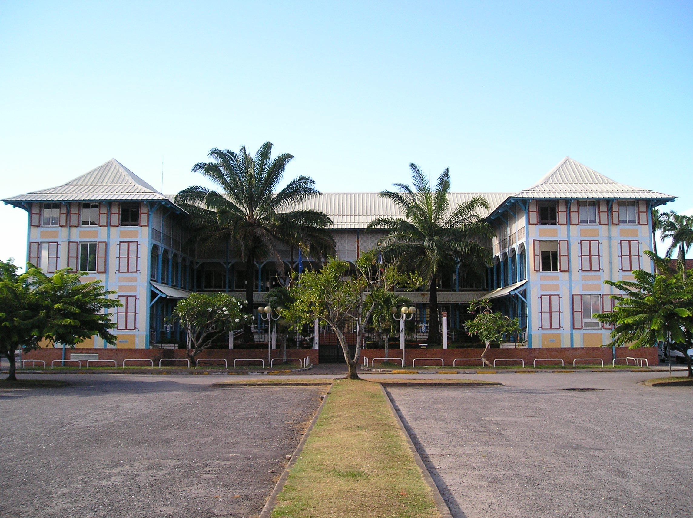 Chambre de commerce et d'industrie of French Guiana